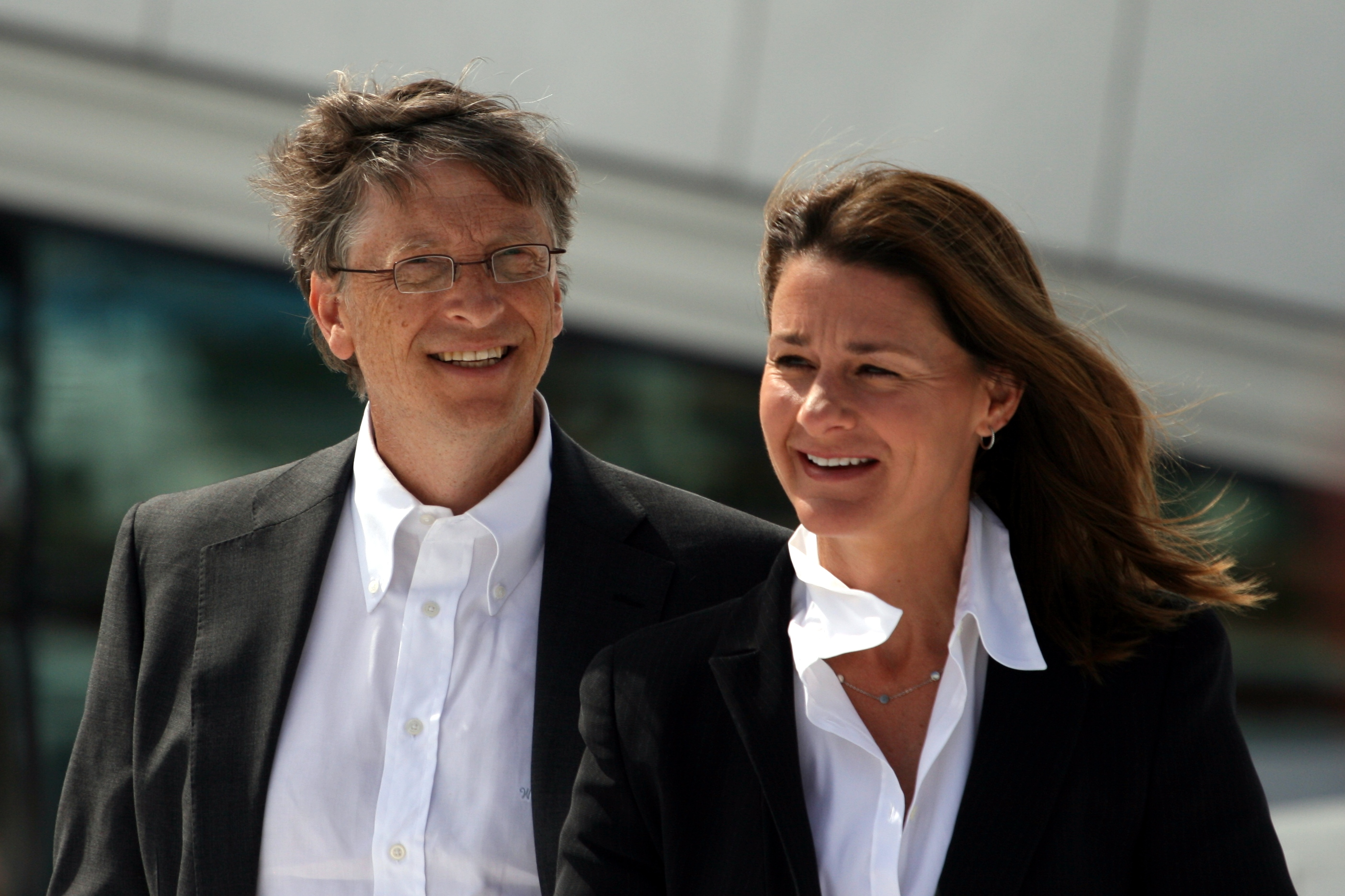 Bill and Melinda Gates during their visit to the Oslo Opera House in June 2009.